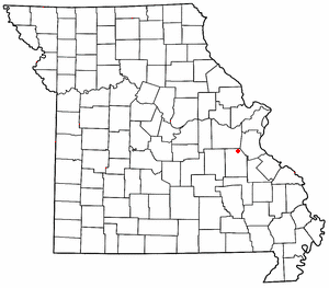 Modified from a map on Wikipedia.